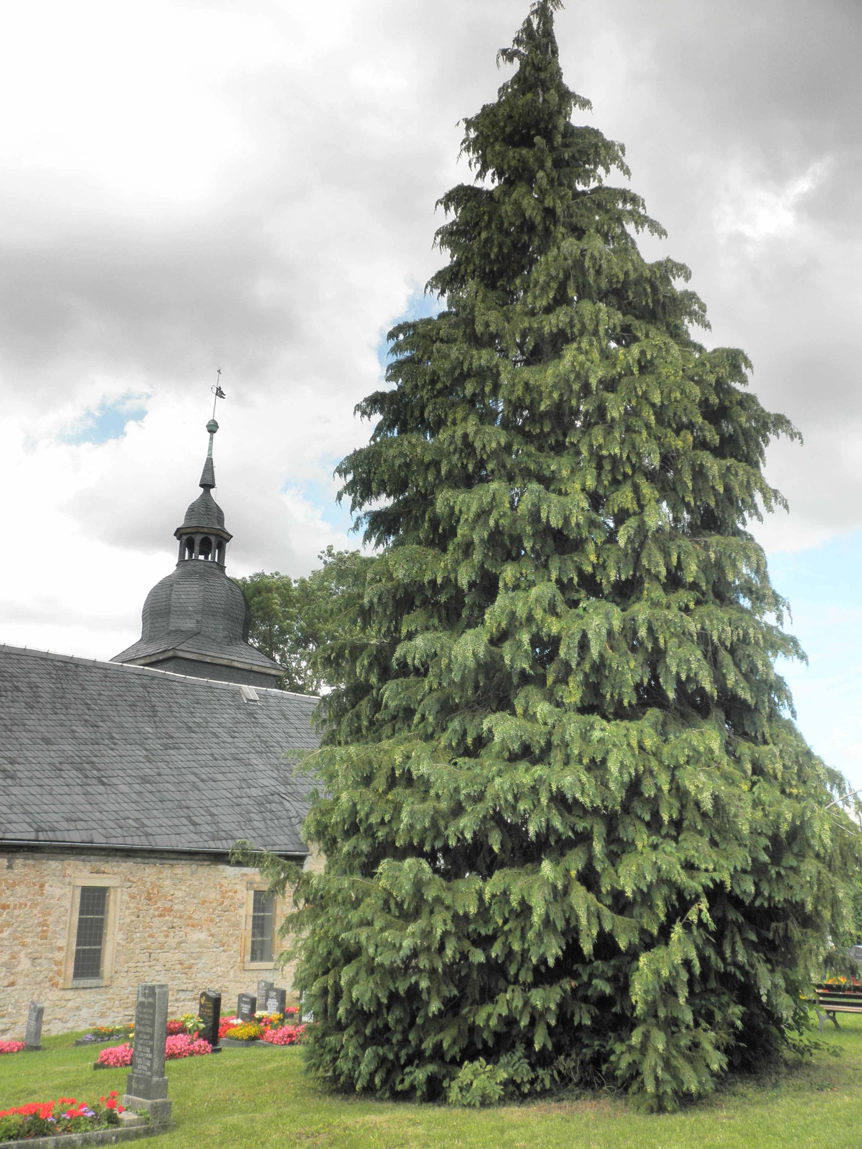 Chamaecyparis lawsoniana on cemetery in Alkersleben in Thuringia